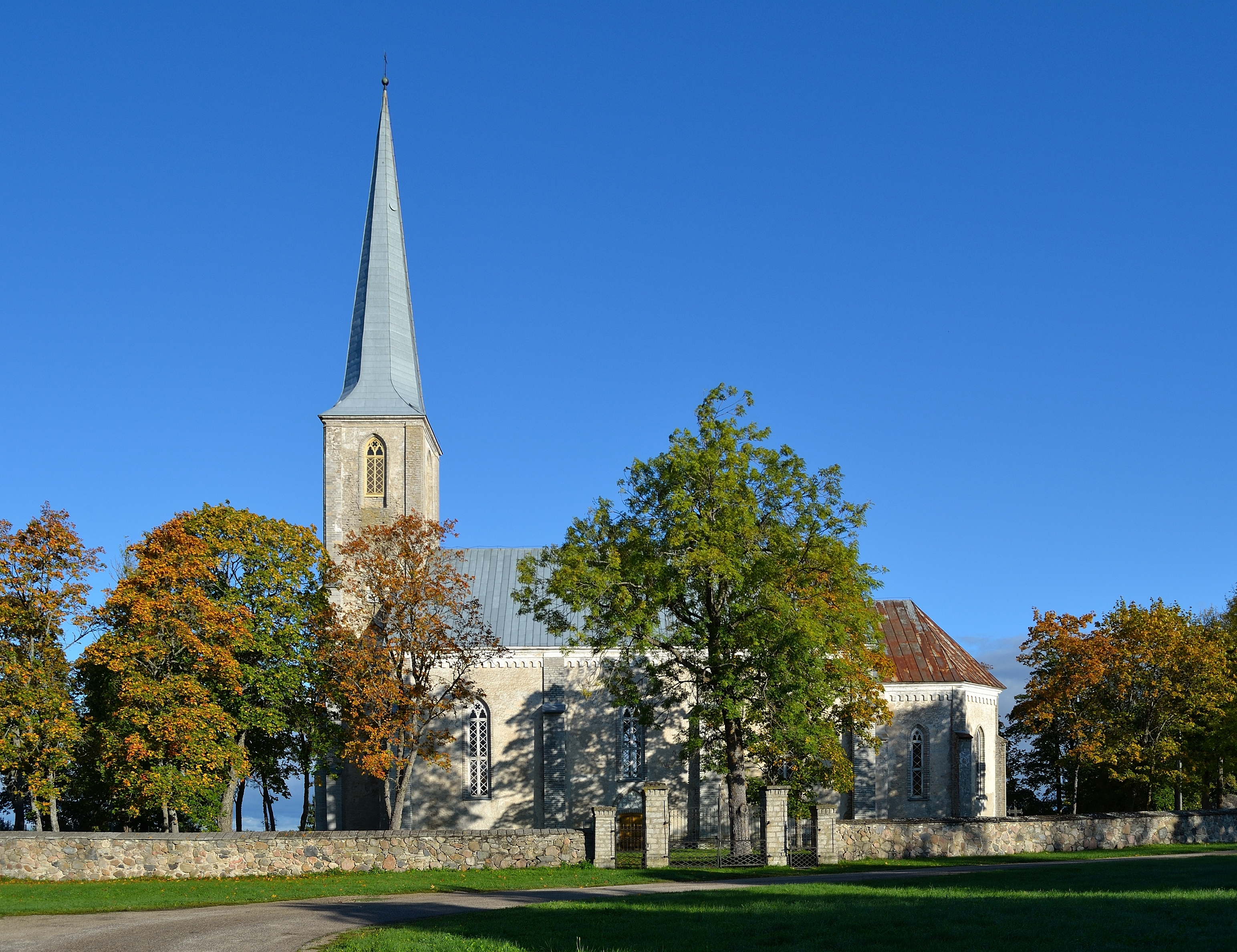 Nissi church, 1873 This photograph was taken with a Nikon D3100